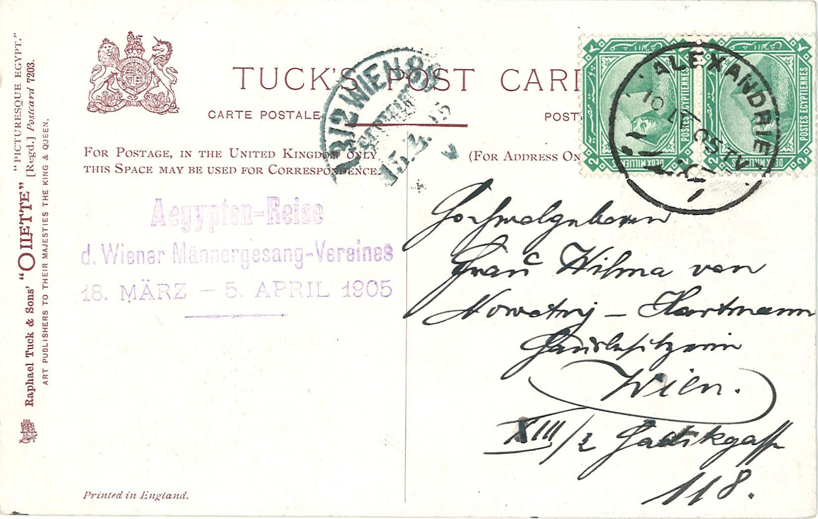 Picture postcard with Giza pyramids (artist: A. Kircher, + 1939) with SS Galicia, stamped 1905, backside